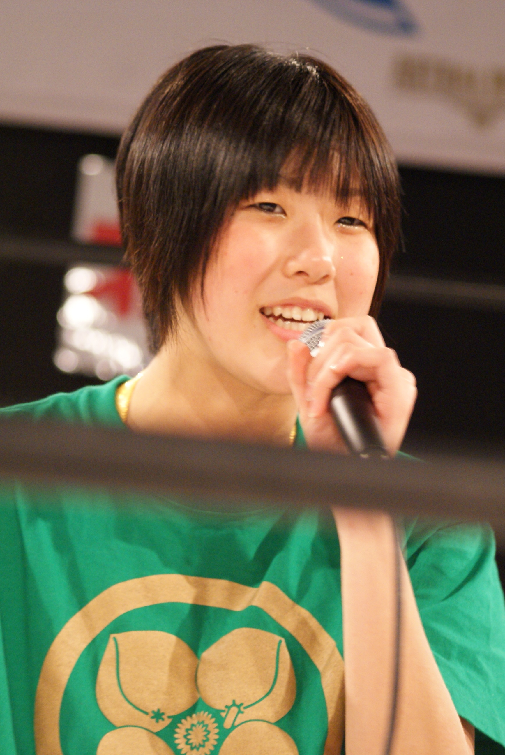 Professional wrestler Hikari Minami at an Ice Ribbon event.